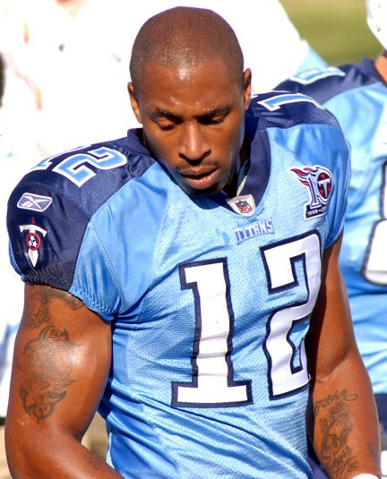 Tennessee Titans wide receiver Justin Gage on the sidelines during the Green Bay Packers game on November 2, 2008.